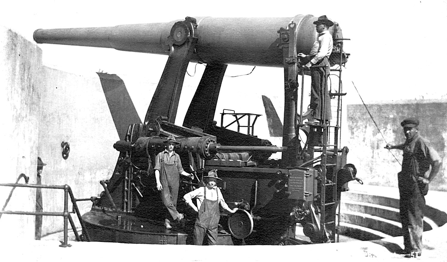 This is a 10-inch Coast Artillery gun on a M1896 disappearing carriage. It is "in battery", or in position ready to fire. It appears that the four men (other than the Coast Artillery soldier barely visible at extreme left) are mechanics, and this is not an actual firing drill. The man at right is holding the firing lanyard, while the man on the upper platform is standing where the man looking through the telescopic sight would usually be positioned. This gun had a maximum range of about 7 miles.